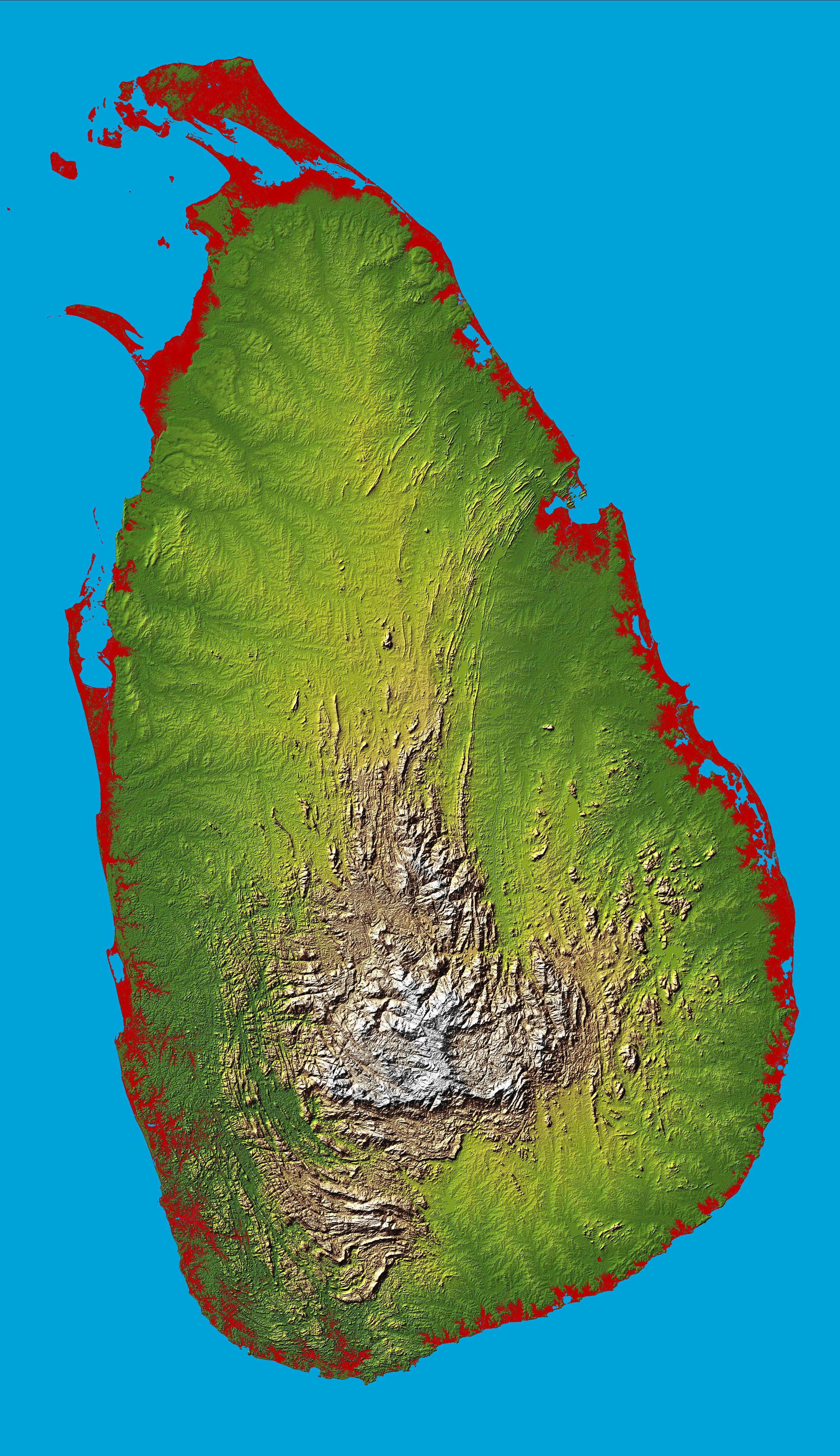 Topography of Sri Lanka, obtained from the Shuttle Radar Topography Mission of STS-99, aboard the Space Shuttle Endeavour.